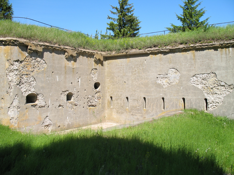 Kaunas Fortress' Ninth Fort.